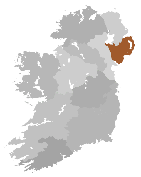 Location map of the Church of Ireland Diocese of Down and Dromore Information source: Church of Ireland website]